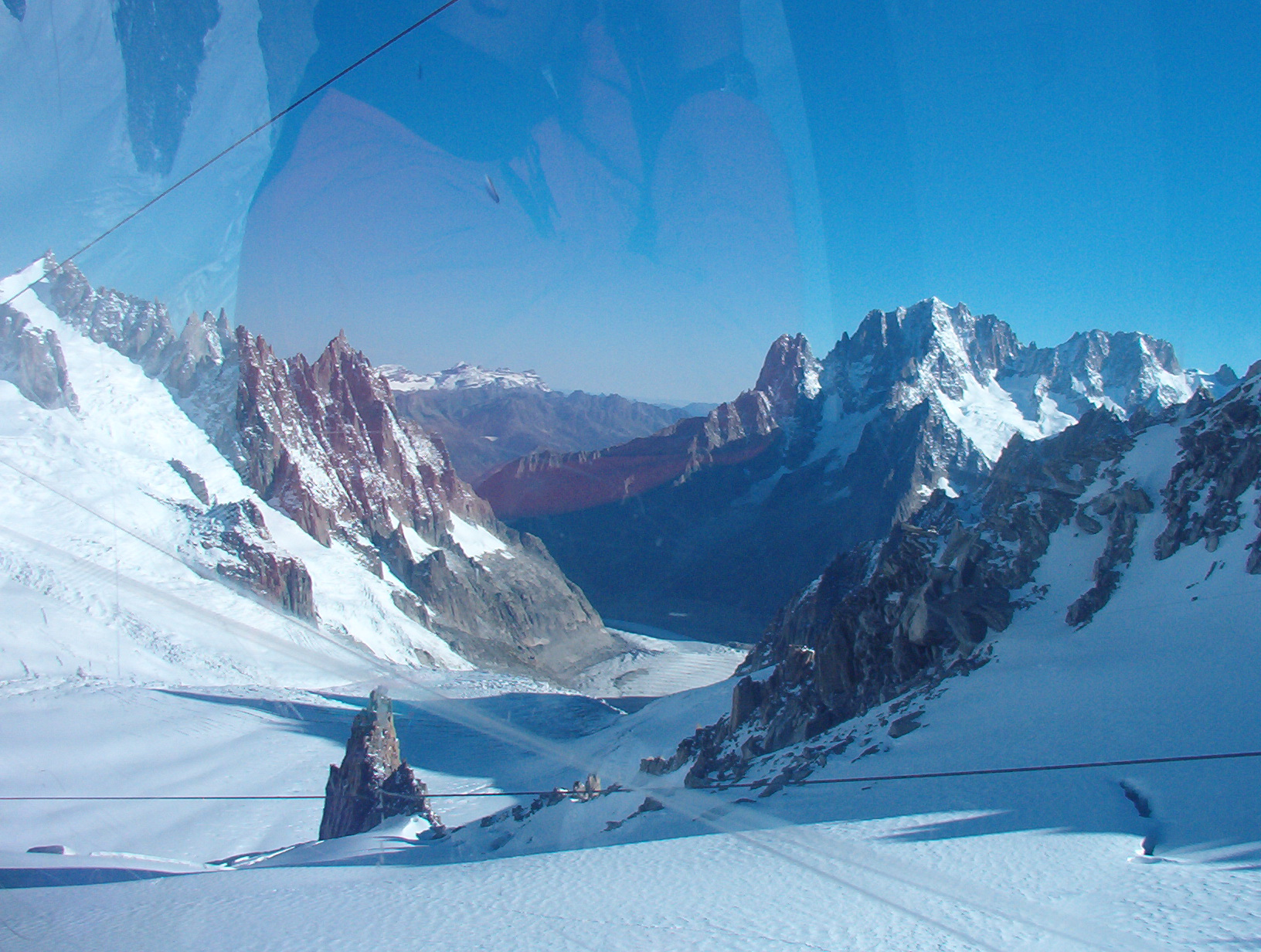 Glacier du Tacul; Mont Blanc Massif